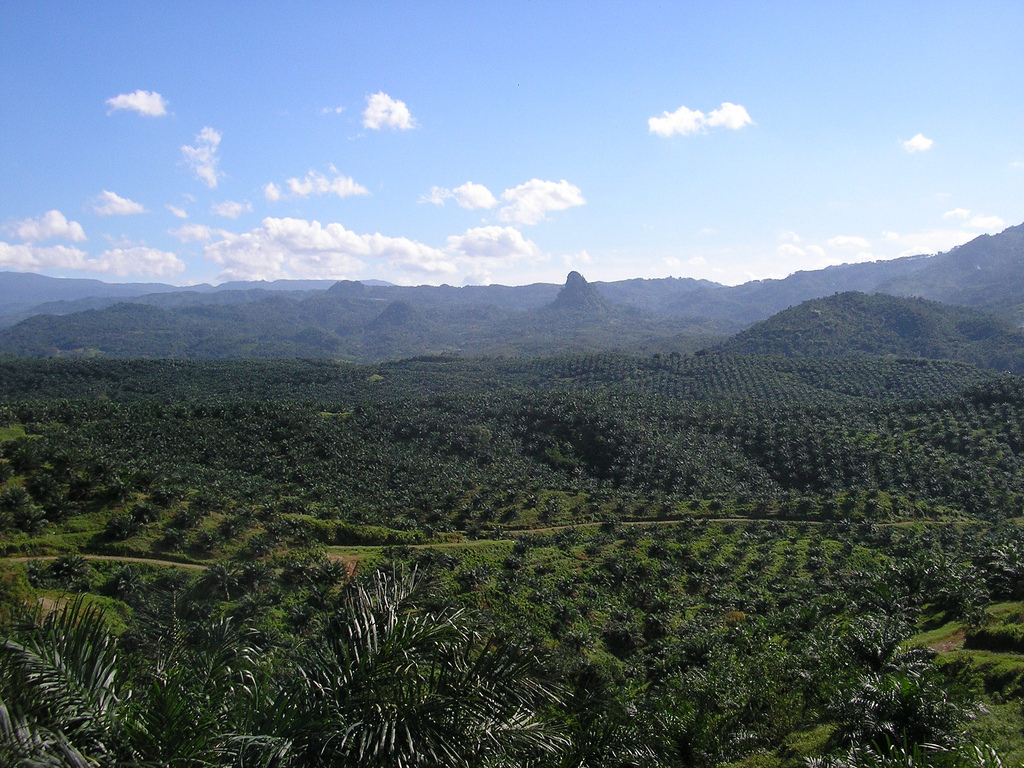 View of palm oil plantation in Cigudeg, Bogor